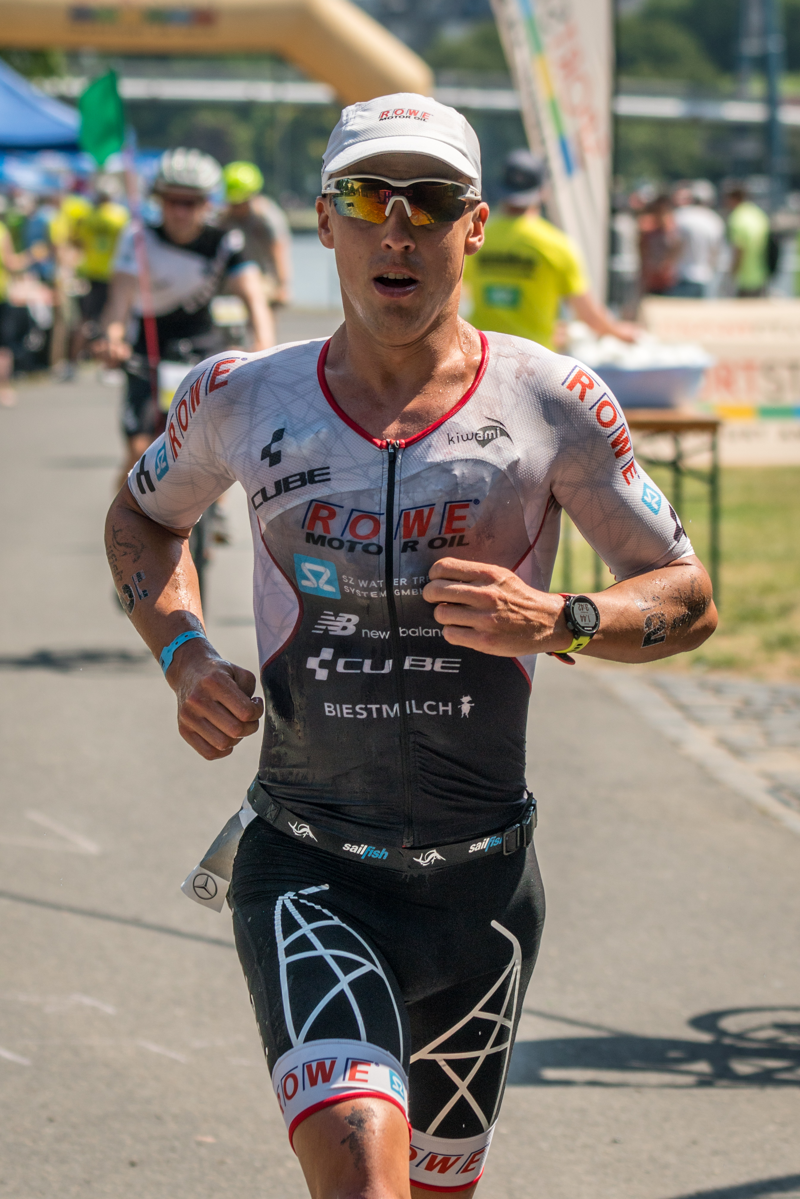 Andreas Böcherer at the 2017 Ironman European Championship in Frankfurt am Main.